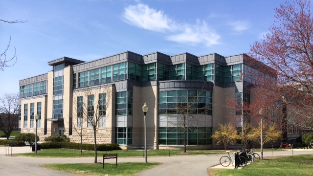 The Isenberg School of Management building on the University of Massachusetts Amherst campus.